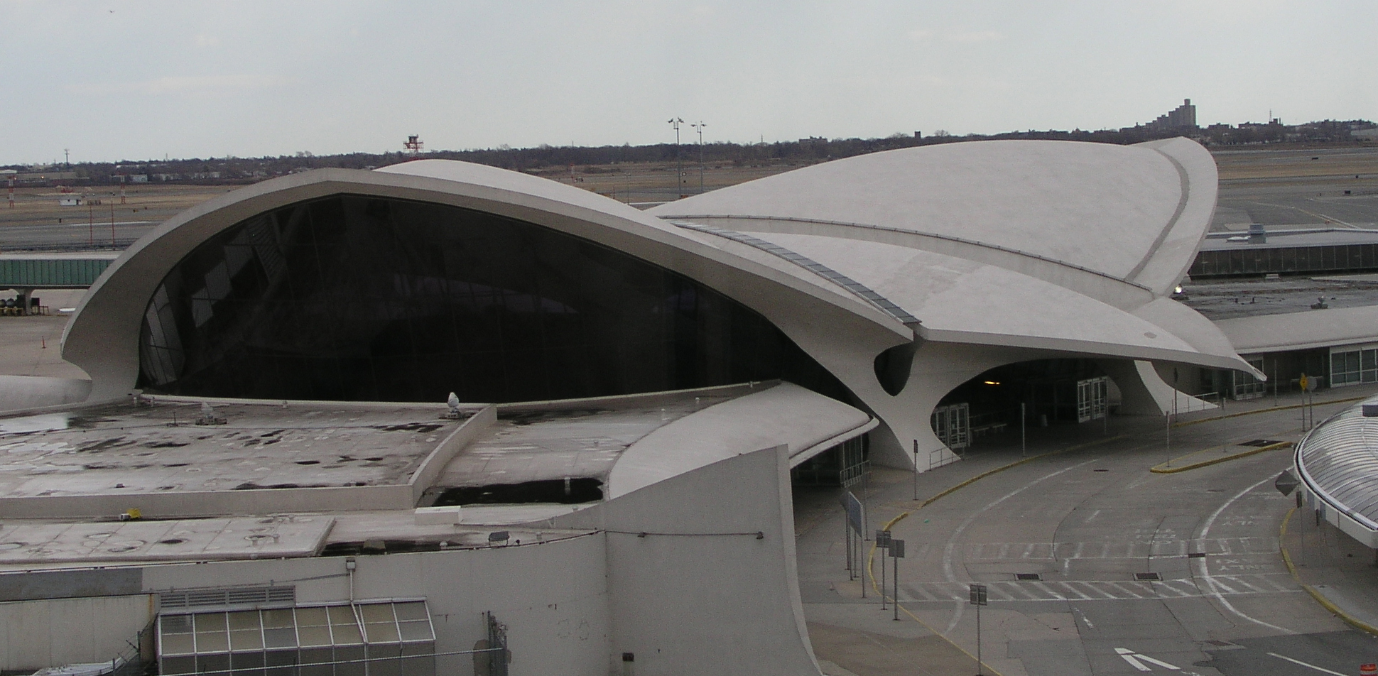 TWA Flight Center in 2004 — by Earo Saarinen (1962). It opened in 1962 as a standalone terminal for TWA—Trans World Airlines, and in 2008 was connected to the new JFK Terminal 5 ( Jetblue Terminal). Photographed by Marc N. Weissman (2004)